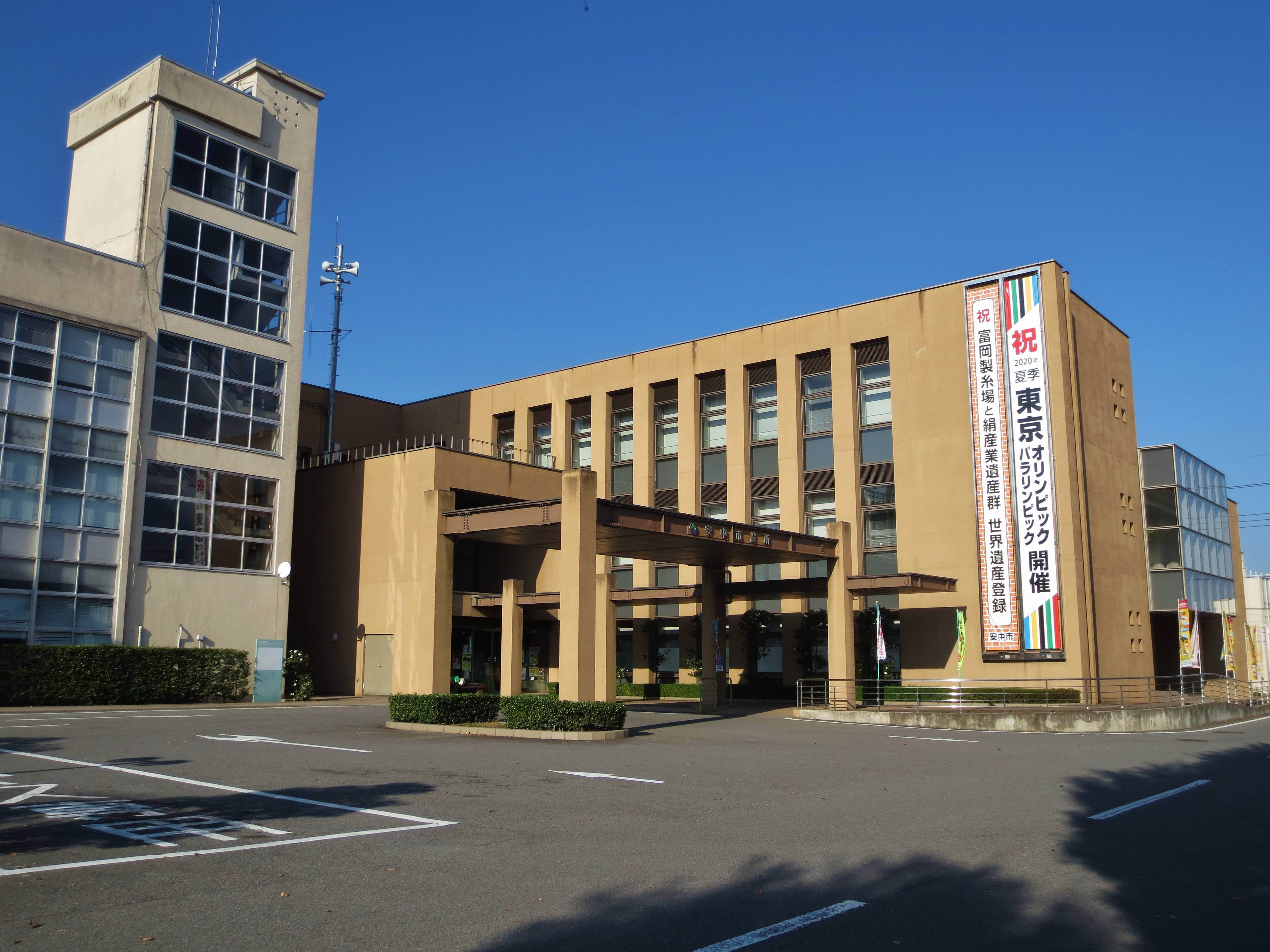 Annaka city office.